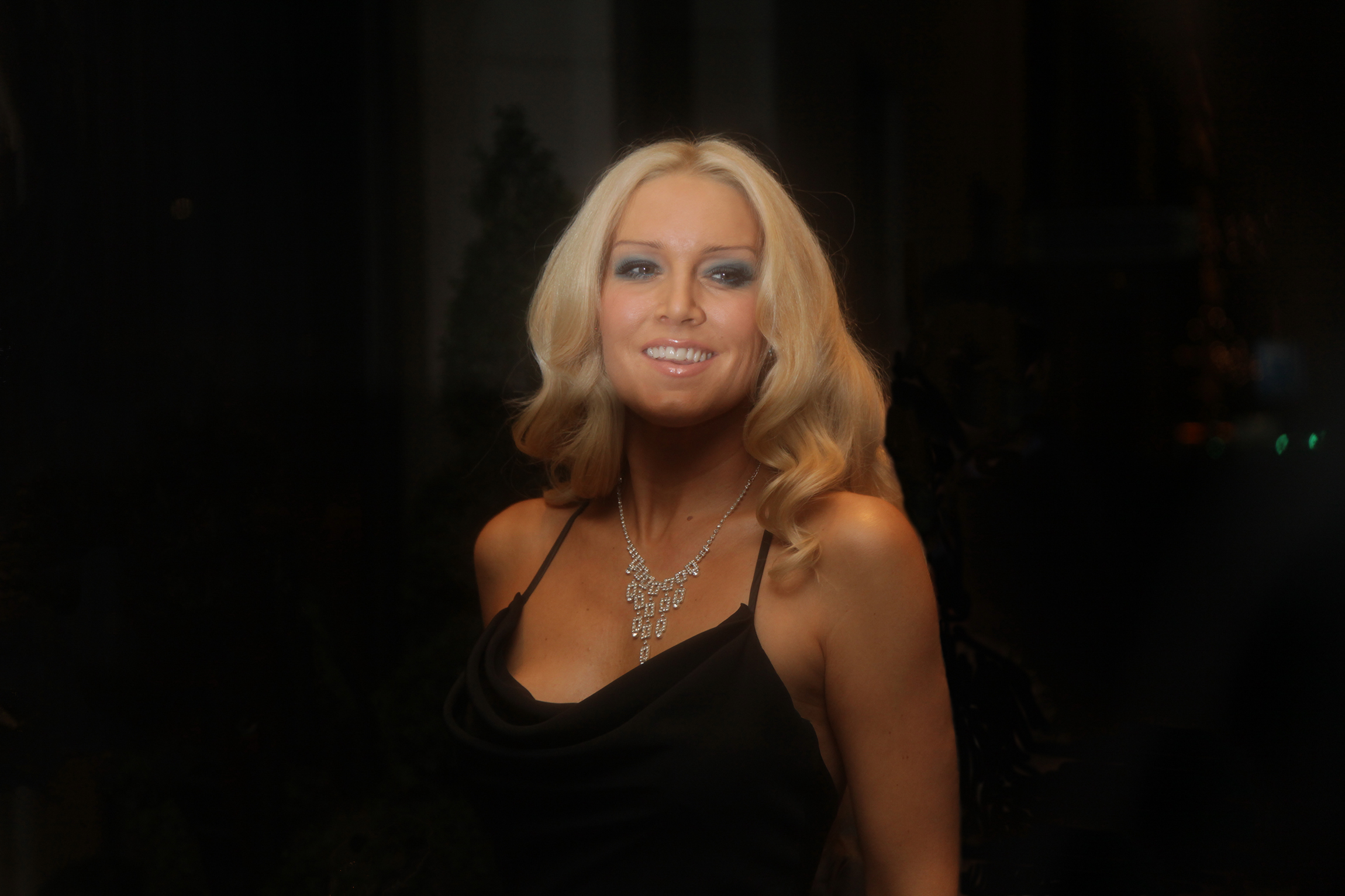 Emma Noble is an English model and actress. From 1999 to 2004, she was married to James Major, the son of former Prime Minister John Major.